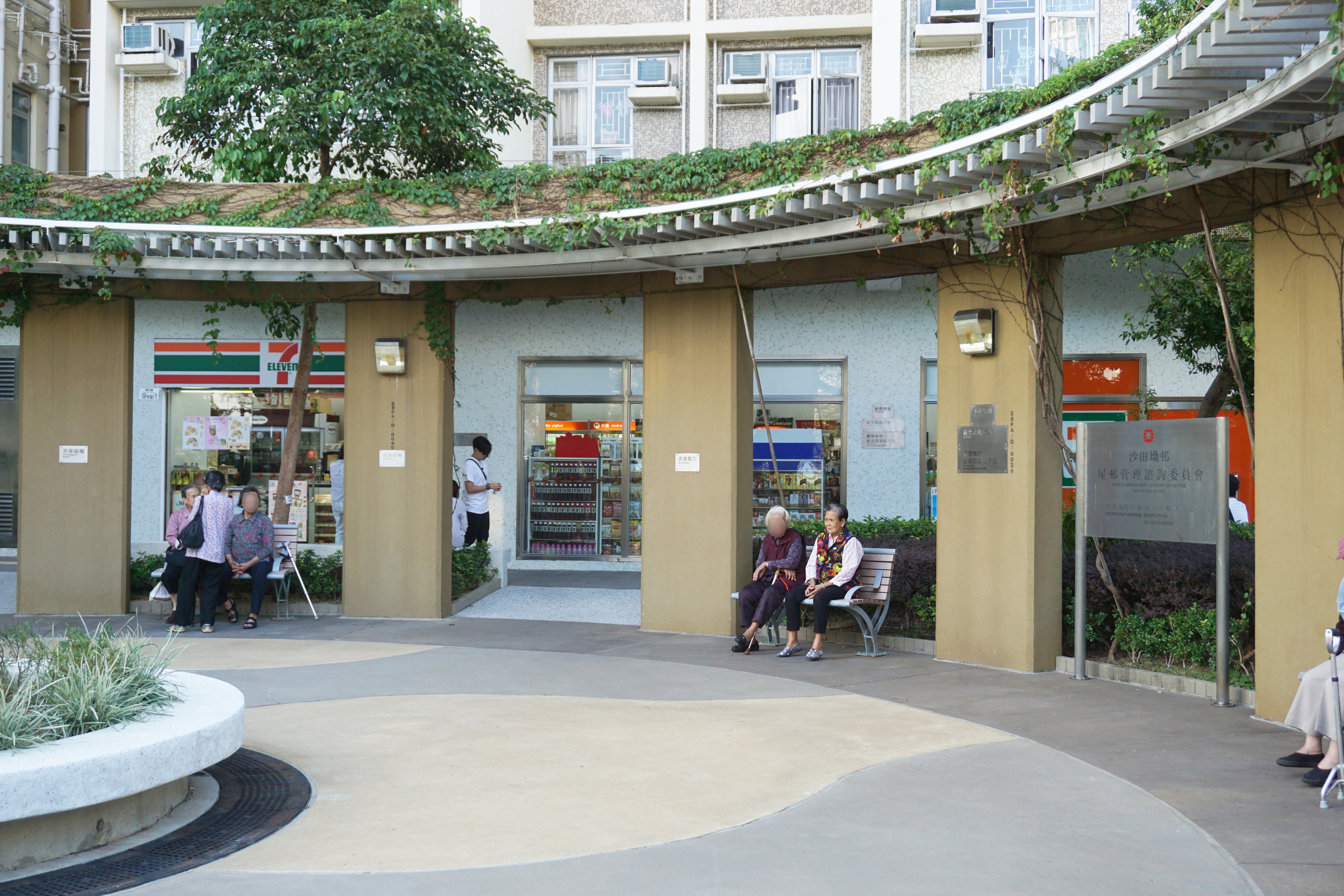 Shatin Pass Estate in Tsz Wan Shan, Hong Kong.